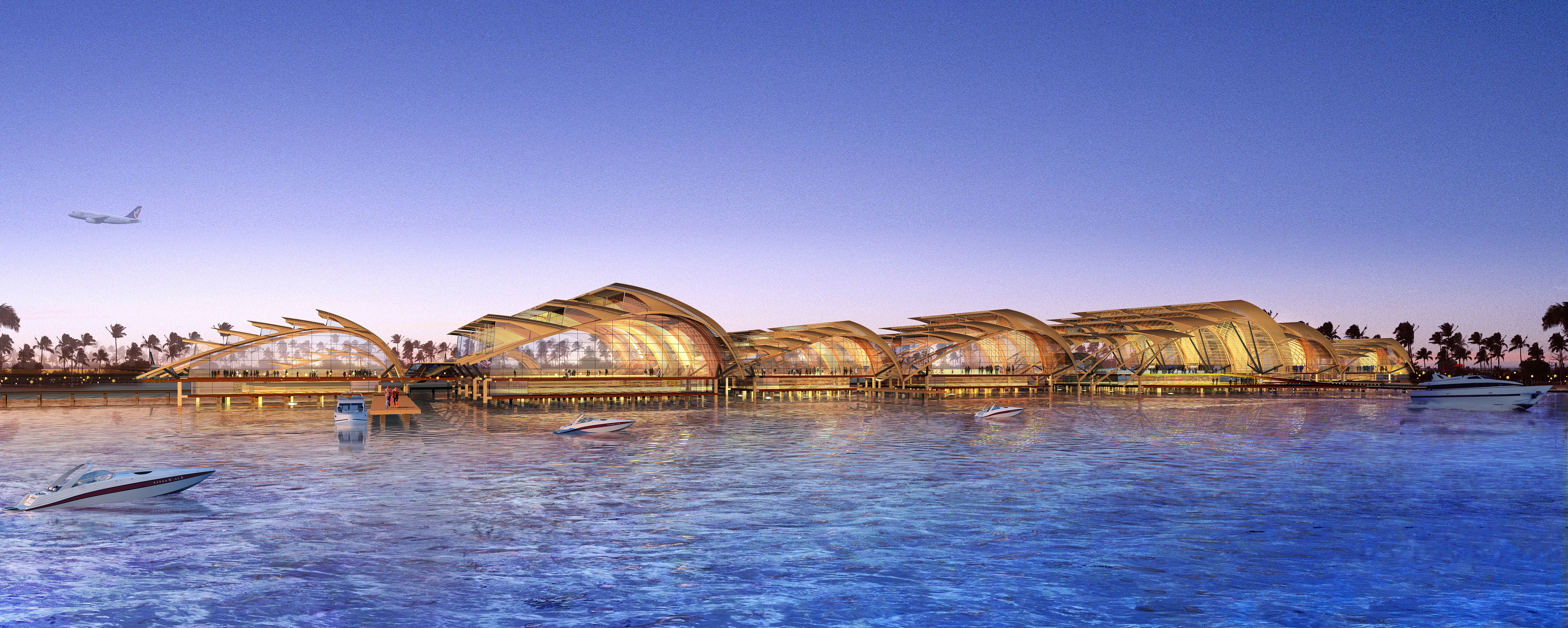 Hanimaadhoo International Airport, Maldives Concept by Integrated Design Associates Ltd.